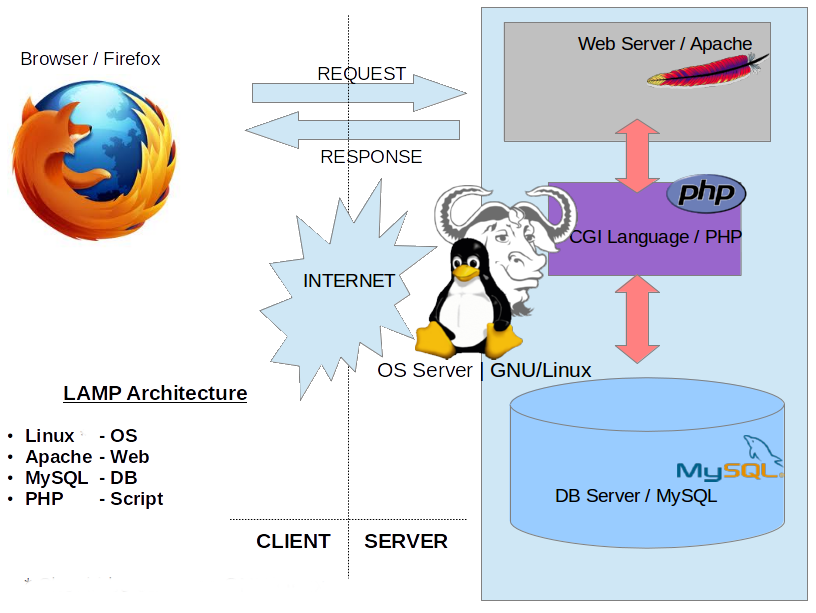 author : Kesavan Muthuvel ; source : own work; URL